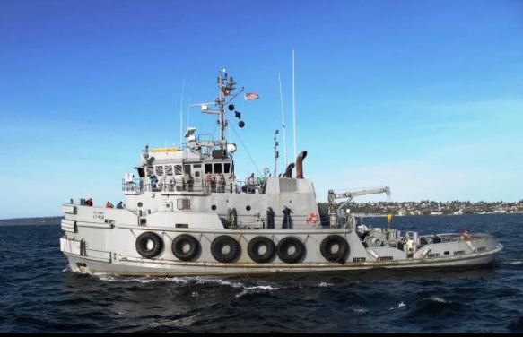 The Major General Nathanael Greene class large coastal tug USAV Major General Henry Knox (LT-802) assigned to the 467th Transportation Company in Tacoma, Washington.